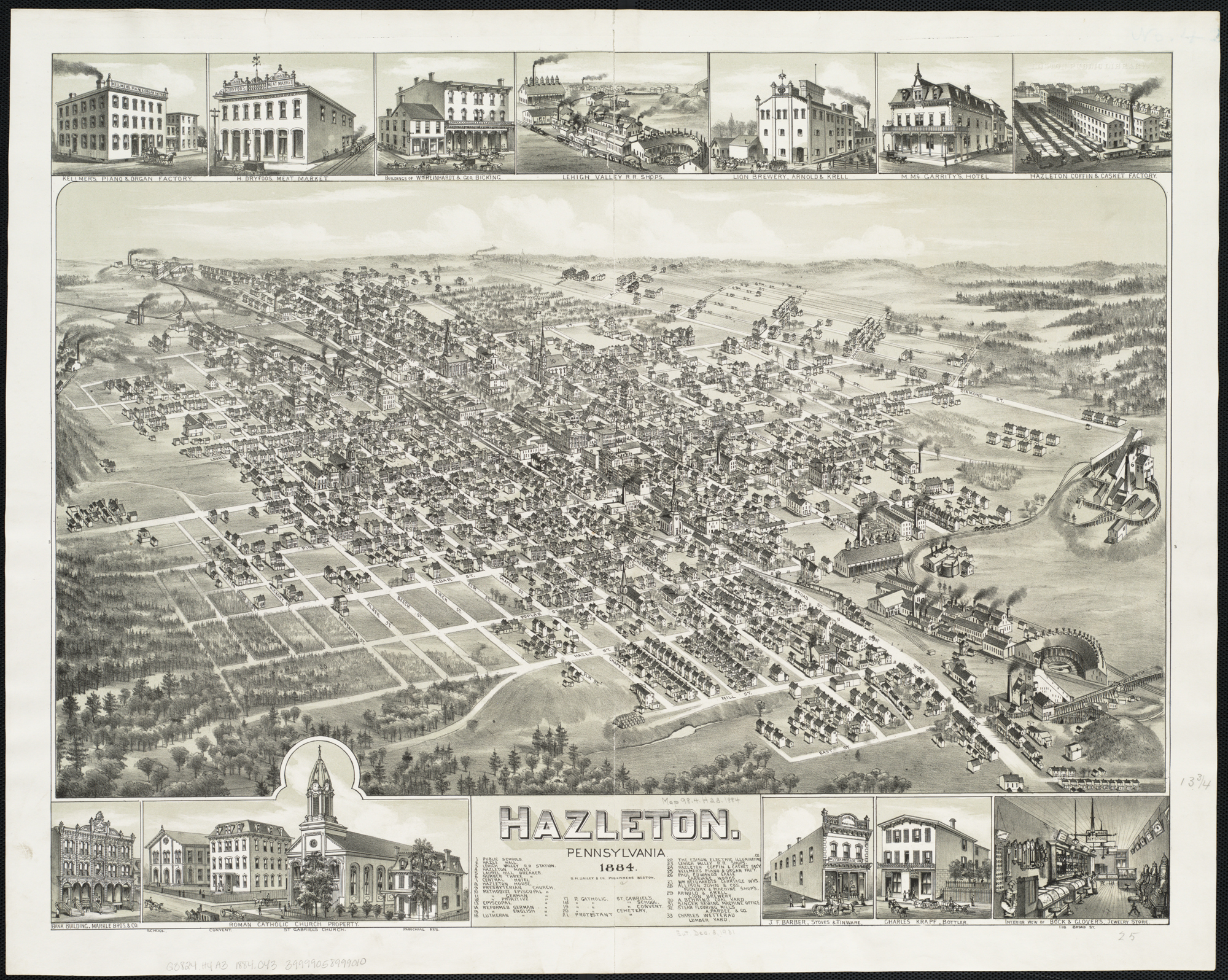 Zoom into this map at . Author: O.H. Bailey & Co. Publisher: O.H. Bailey & Co. Date: 1884 Location: Hazleton (Pa.) Scale: Not drawn to scale. Call Number: G3824.H4A3 1884.O43